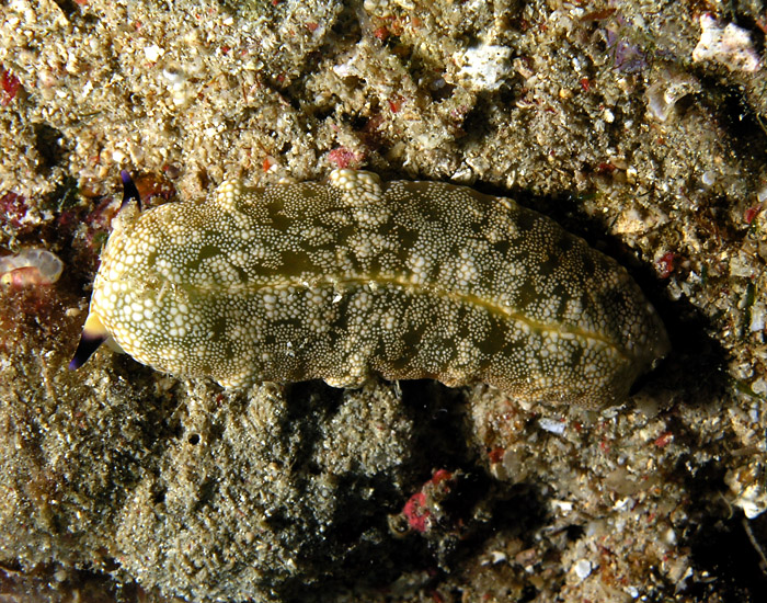 Plakobranchus ocelatus, synonym: Placobranchus ocellatus